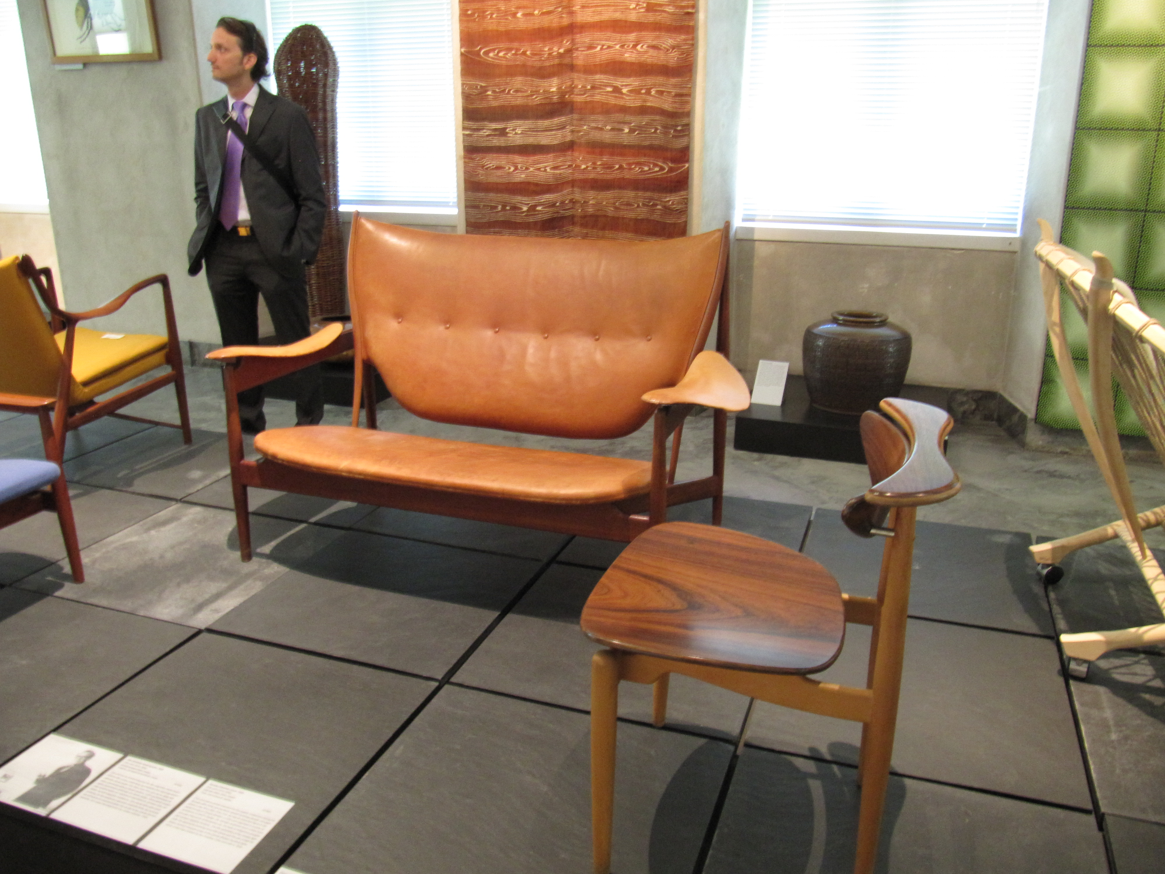 Finn Julh furniture at at Danish Design Museum in Copenhagen